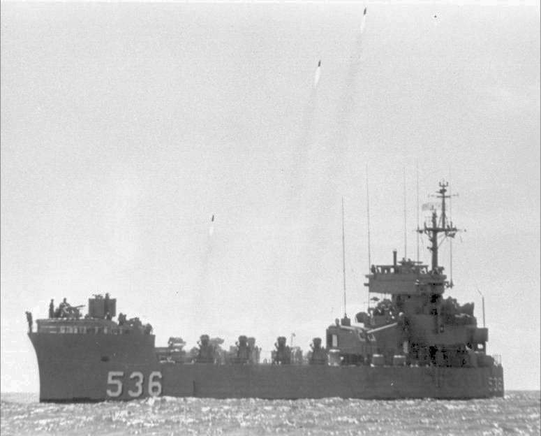 The U.S. Navy inshore fire support ship USS White River (LSMR-536) firing rockets at a Viet Cong targets in South Vietnam, 29 June 1966.